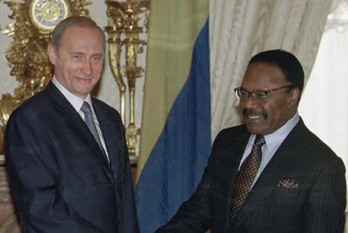 THE KREMLIN, MOSCOW. President Vladimir Putin meeting with Gabonese President Omar Bongo.